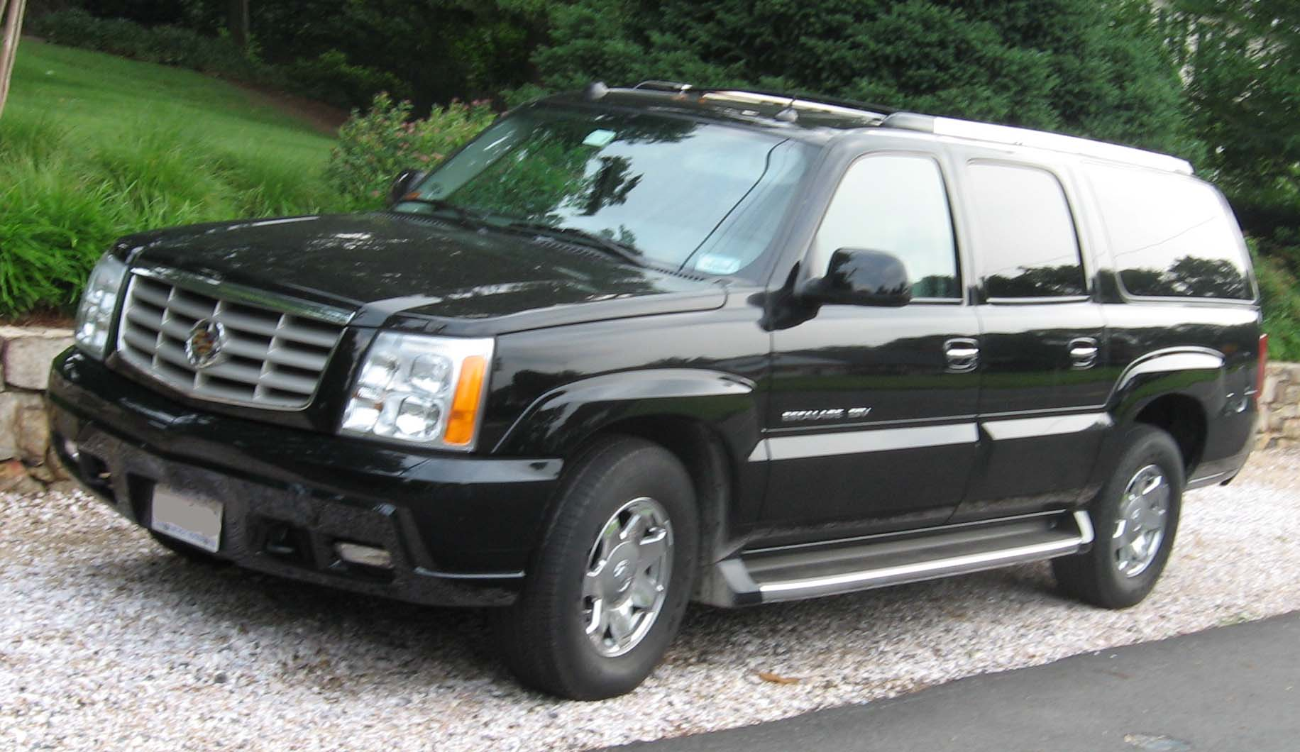 2004-2006 Cadillac Escalade photographed in USA.